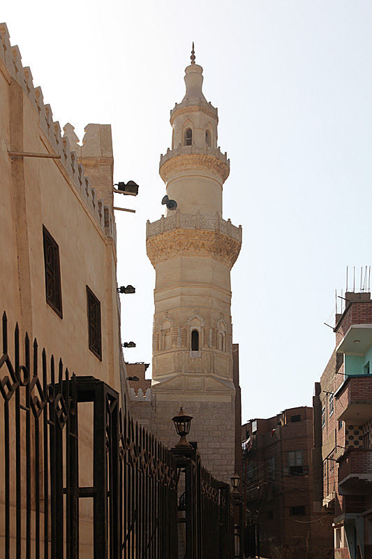 Minaret of the Mosque of Prince Hasan in Akhmim, Egypt